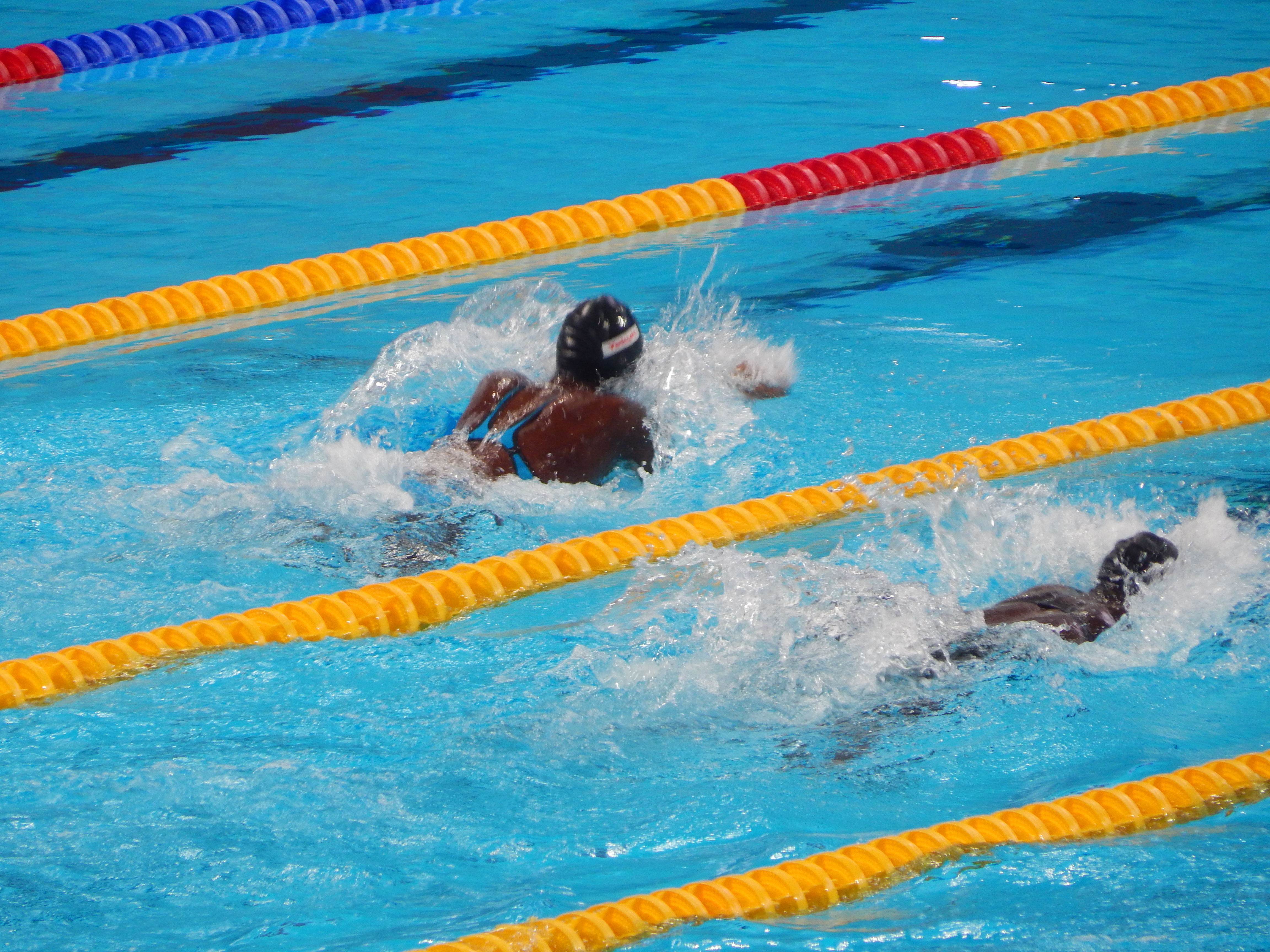 Lane 5 (left on photo): JOACHIM Izzy Shne Yana Kamry VIN Lane 4: (right on photo): LUNKUSE Jamila UGA